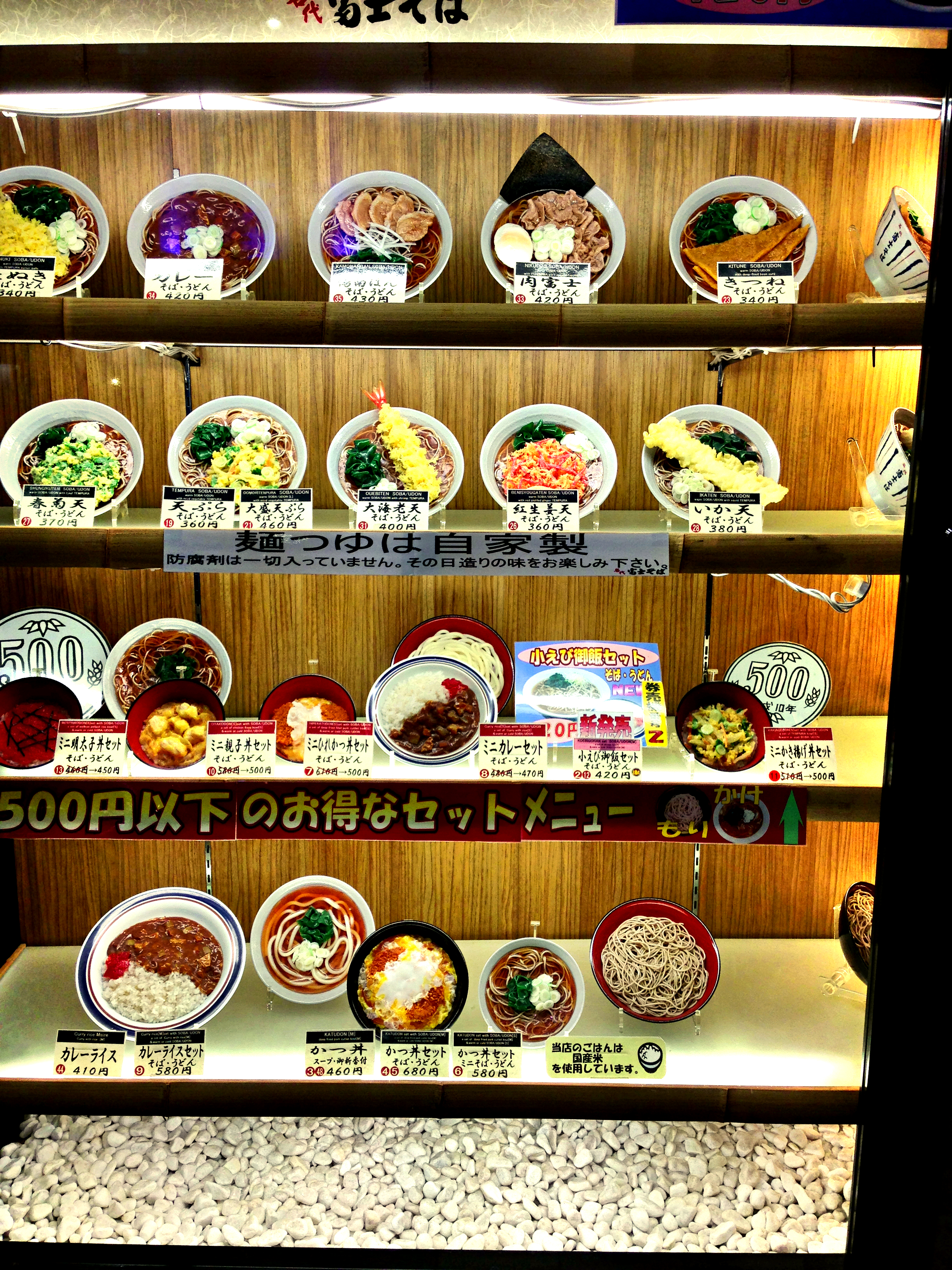 Flickr Tags: Trip Holiday Japan Tokyo Akihabara plastic food Mssarakelly plastic food ramen noodles noodle sushi curry 2013.